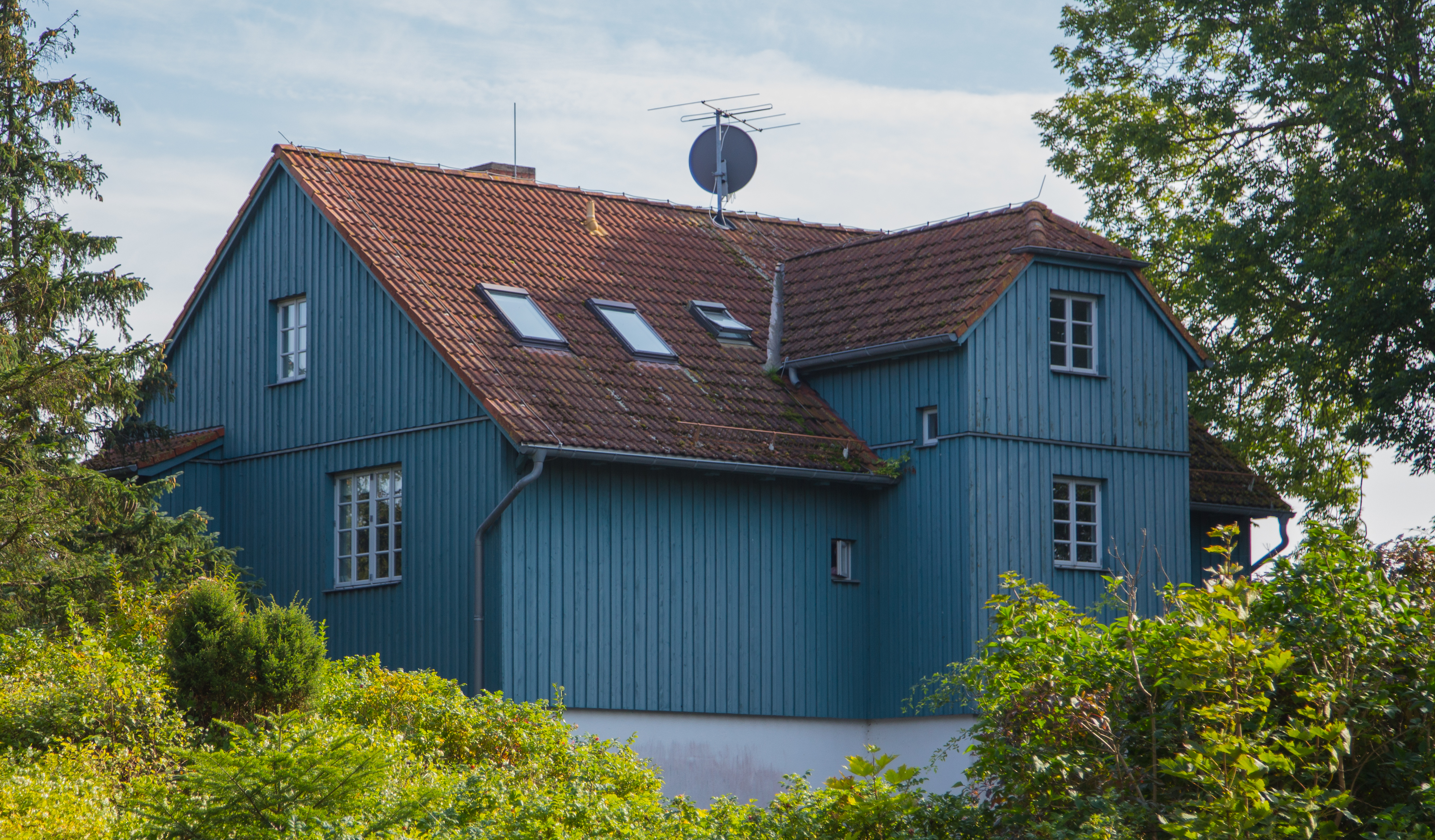 The Künstlerhaus Lukas, 35 Village Street (Dorfstraße 35) in Ahrenshoop, Landkreis Vorpommern-Rügen, Mecklenburg-Vorpommern, Germany.